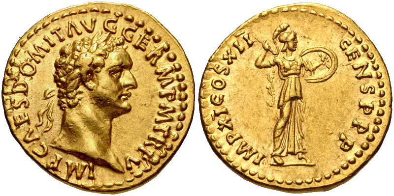 Domitian. AD 81-96. AV Aureus (20mm, 7.45 g, 6h). Rome mint. Struck AD 86. IMP CAES DOMIT AVG GERM P M TR P V, laureate head right IMP XI COS XII CENS P P P, Minerva standing right, holding shield and brandishing spear.